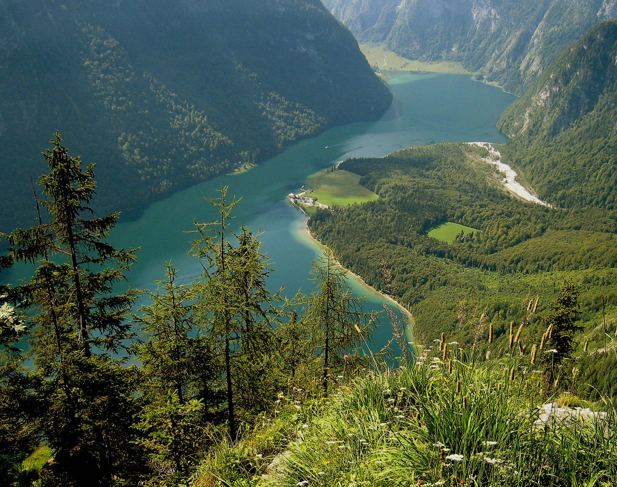 View from Archenkanzel above the Koenigssee, Berchtesgadener Land